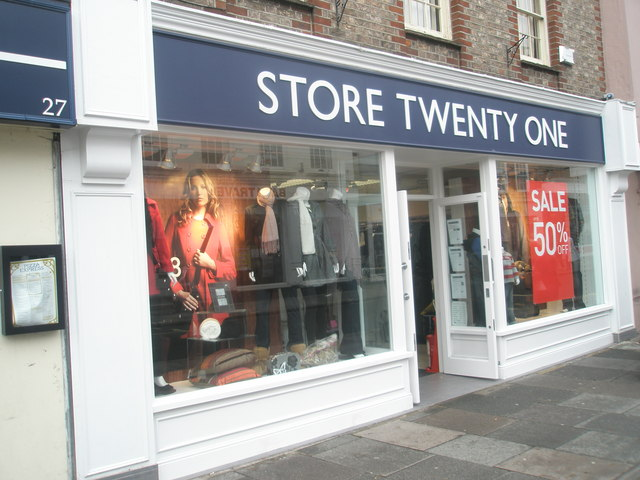 Store Twenty One in South Street